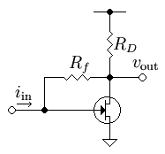 Simple FET feedback amplifier. Made with Klunky.